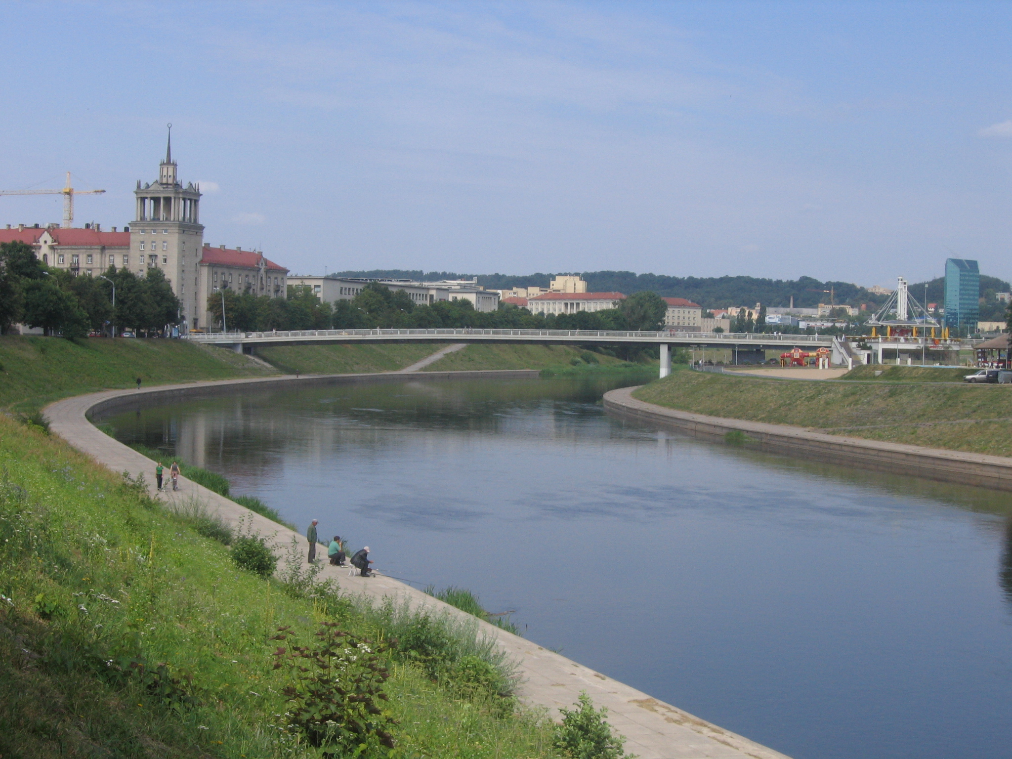 The Neris river, taken in Vilnius, Lithuania, by Beny Shlevich on July 21st, 2005.